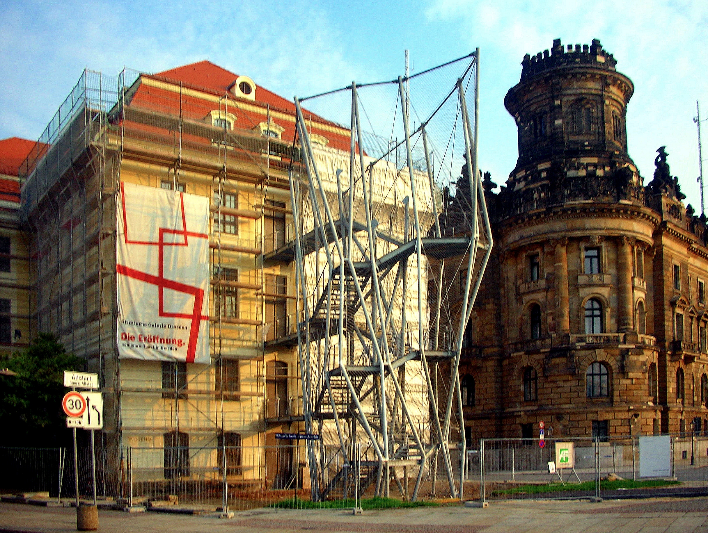 Town museum in Dresden (Germany), fire escape.